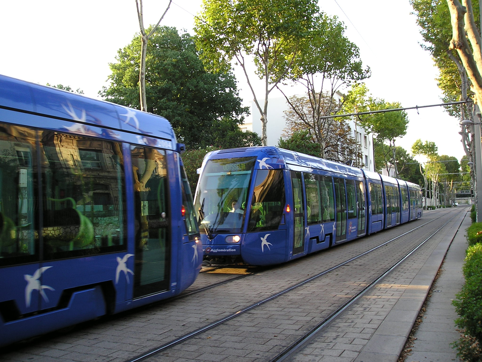 In Montpellier, France, a tramway vehicle of the first line is towed by another on Friday 14 July 2009 morning, photographed at Boutonnet stop. The tram's pantograph on its roof is damaged after an incident on Thursday late afternoon at Millénaire stop.